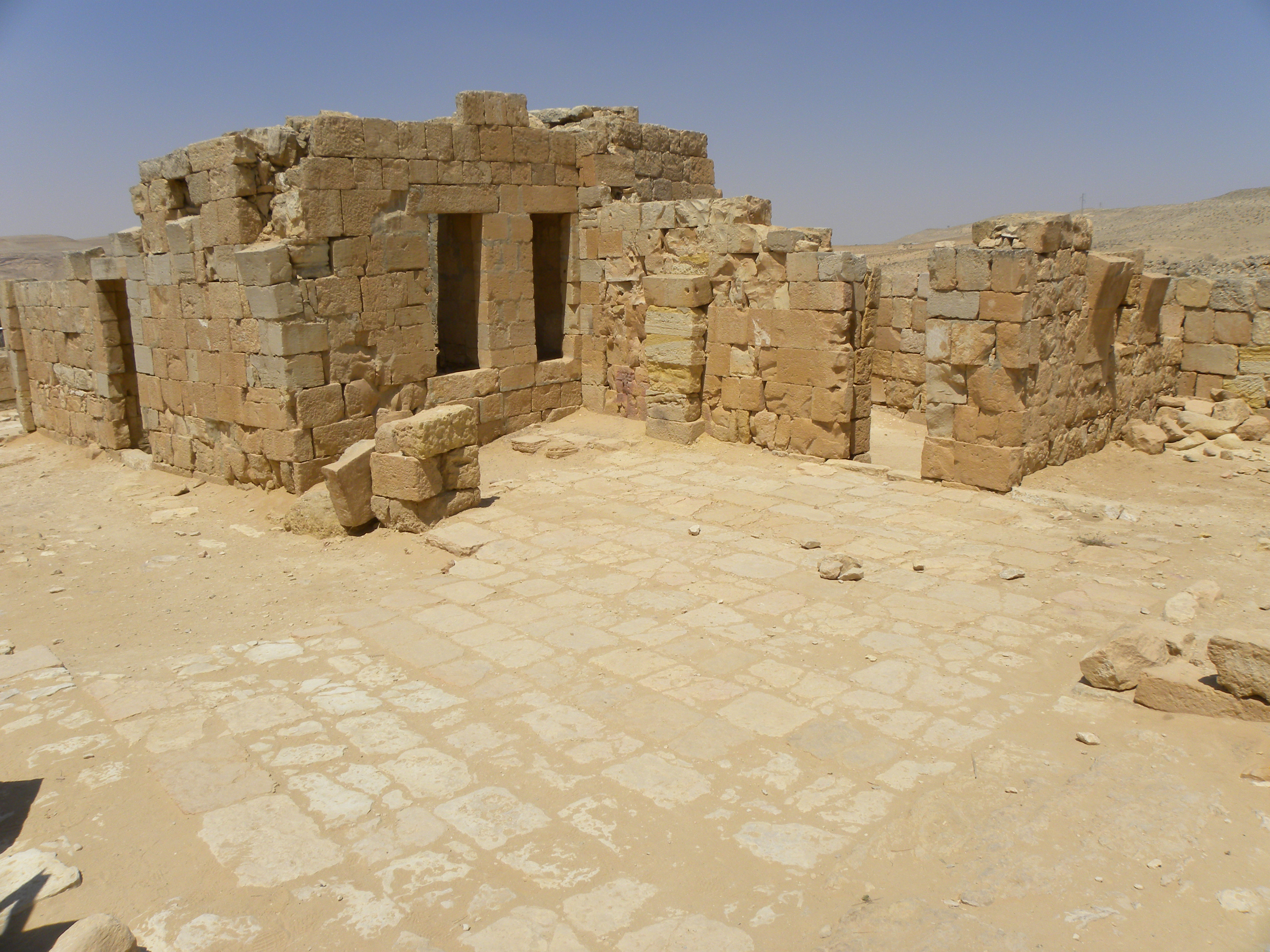 The ground floor of a wealthy private house in ancient Mampsis (Mamshit or Kurnub).